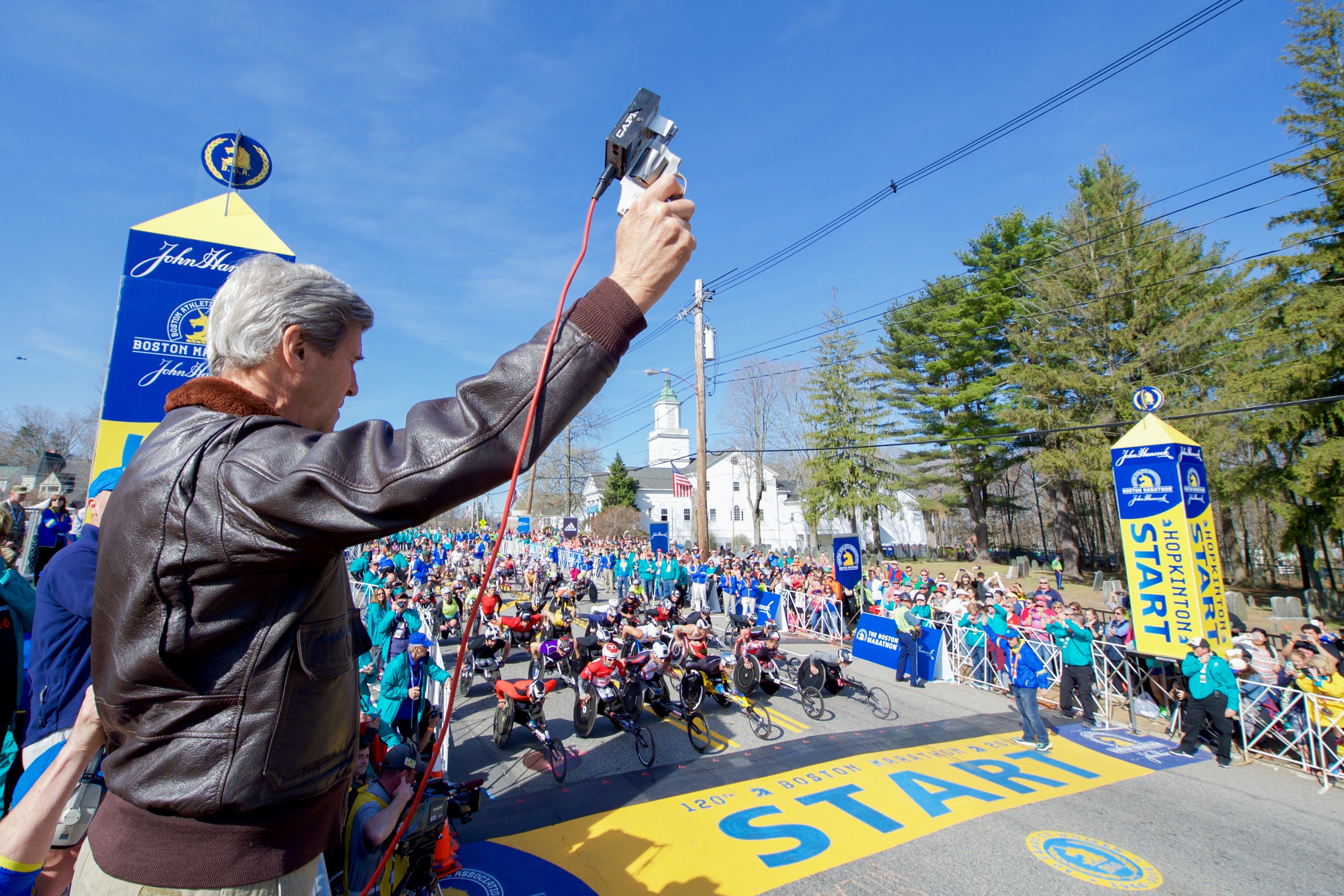 U.S. Secretary of State John Kerry fires the starting gun for the men's push-rim wheelchair division of the Boston Marathon on April 18, 2016, in Hopkinton, Massachusetts. He also started the women's division. [State Department photo/ Public Domain]